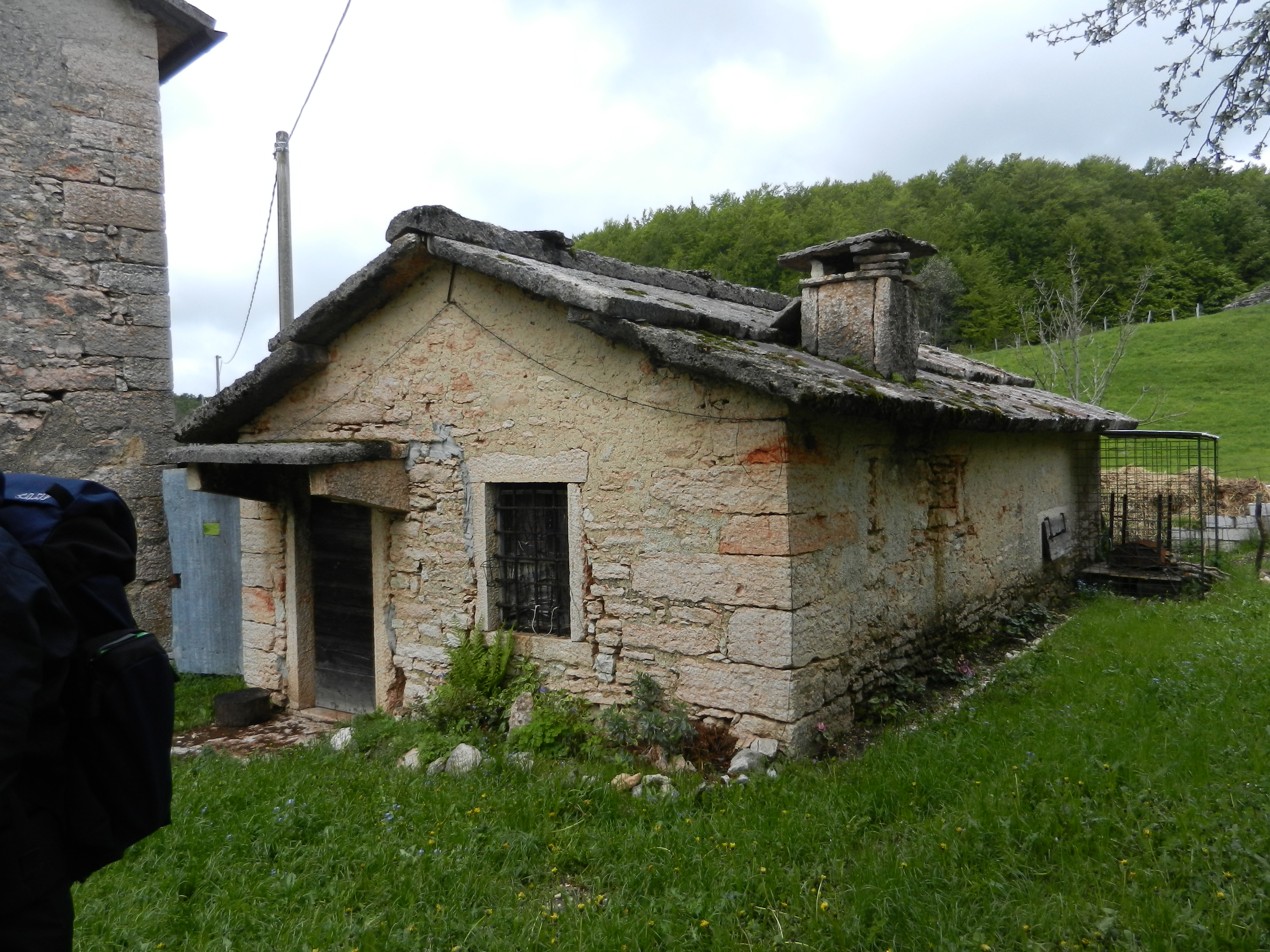 "Baito" is a typical structure for processing milk into cheese, Lessinia